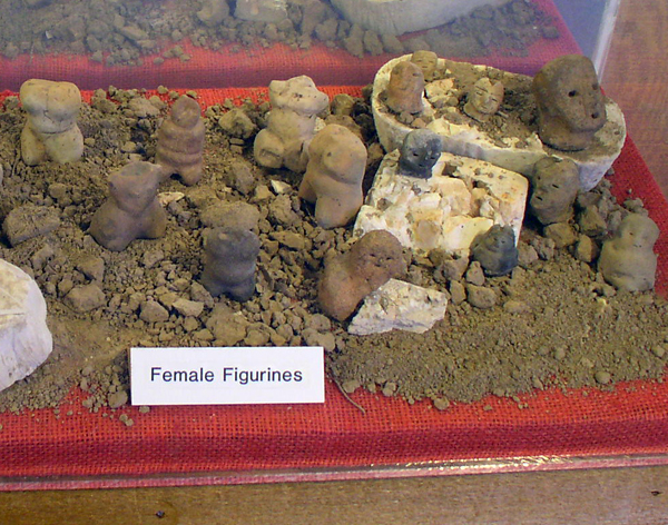 Ceramic female figurines found at the Poverty Point site.